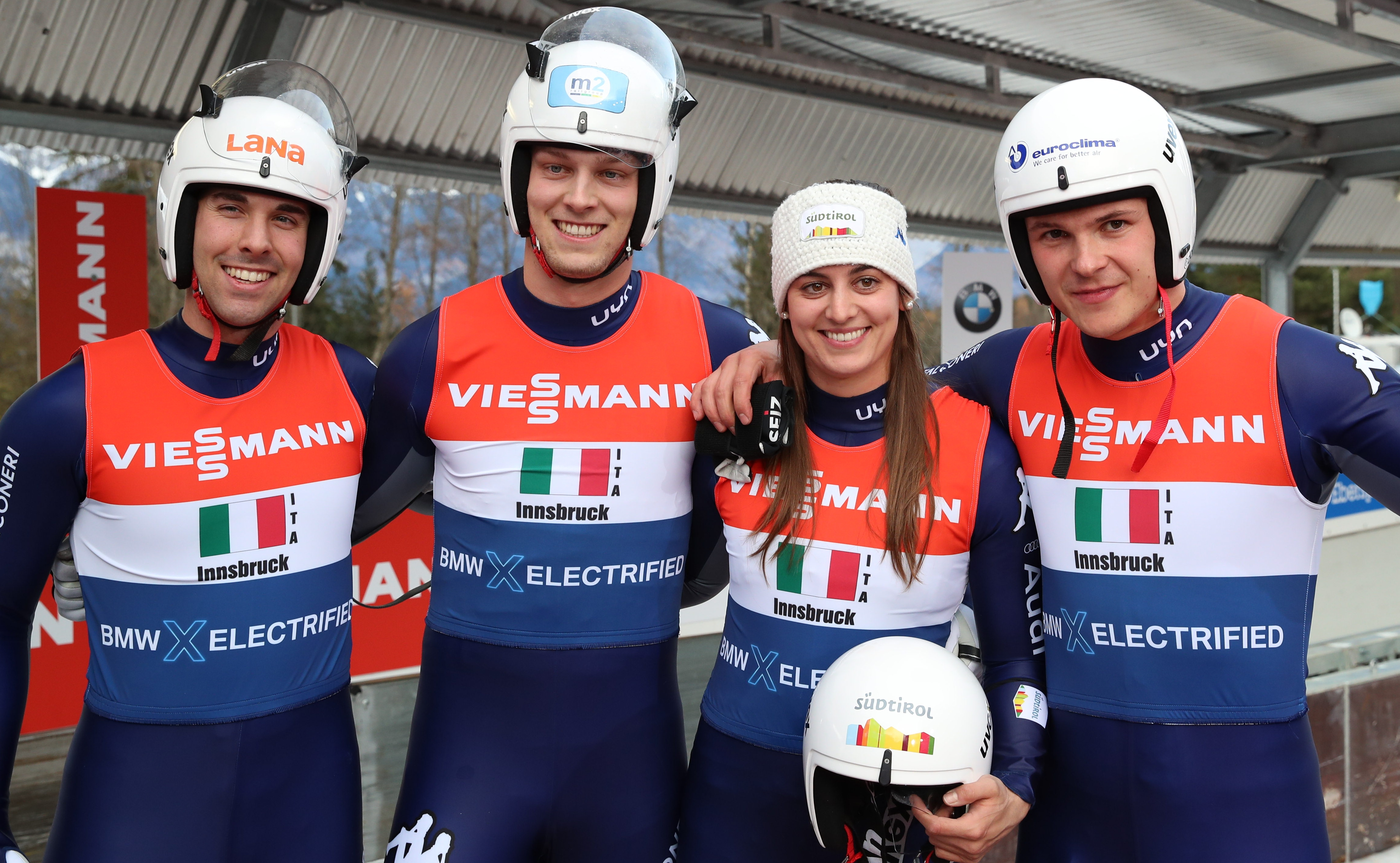 Team Relay World Cup race at the 2019/20 Luge World Cup in Innsbruck-Igls